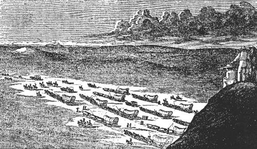 Traders on the Santa Fe Trail, from Josiah Gregg, Commerce of the Prairies, 1844